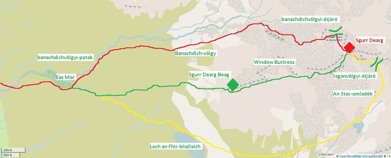 Trails leading to the Sgurr Dearg.